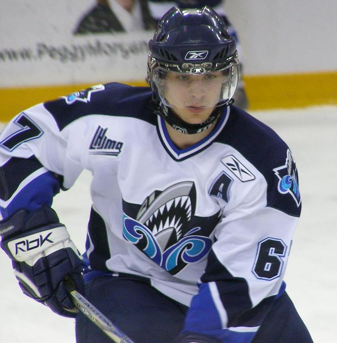 Michael Frolík, playing for the QJMHL Rimouski Océanic in a game in Halifax, on February 8, 2008.